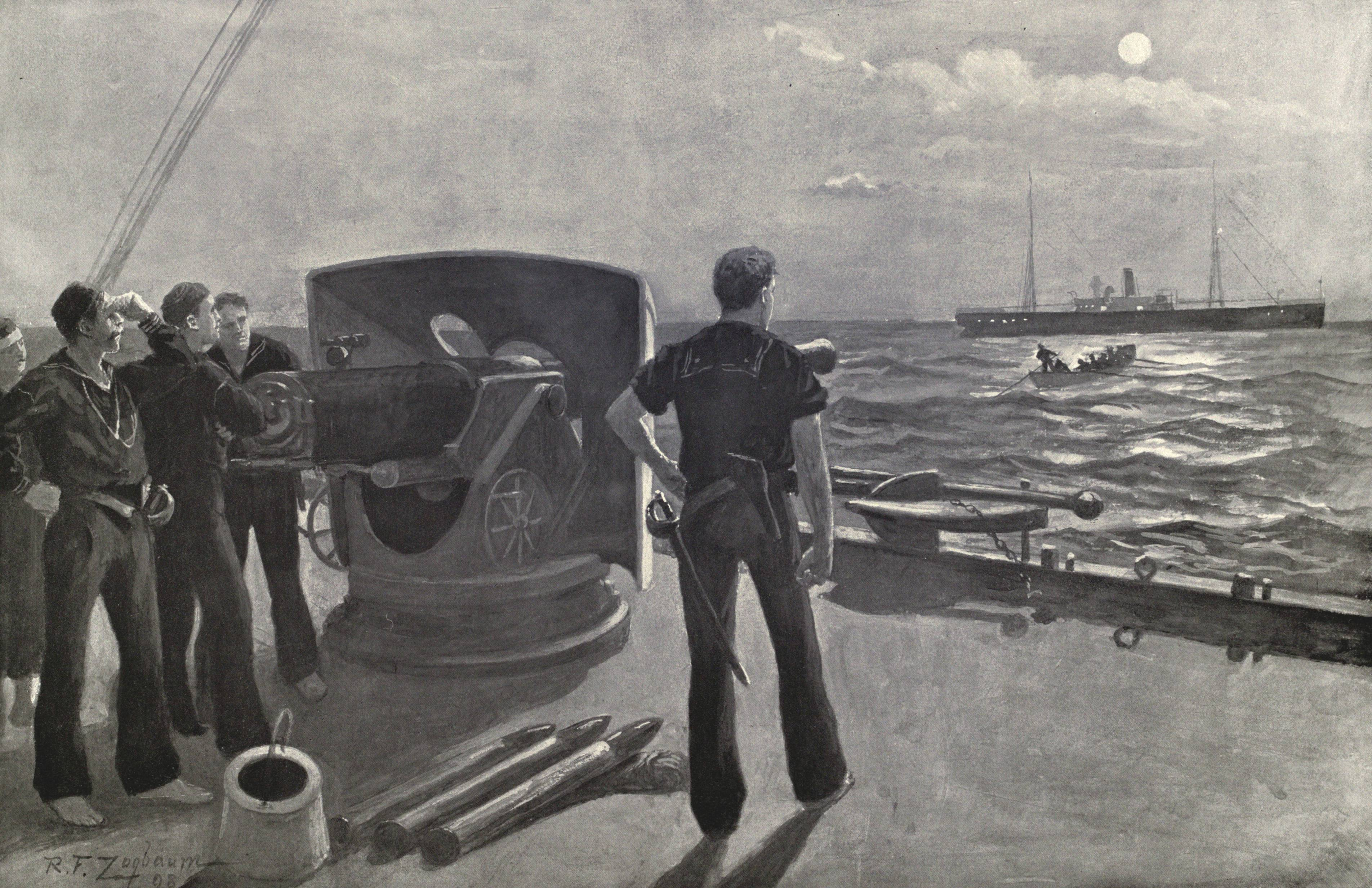 On the blockade off San Juan - "Under the cruiser's guns" From Harper's Pictorial History of the War with Spain, Vol. II, published by Harper and Brothers in 1899.